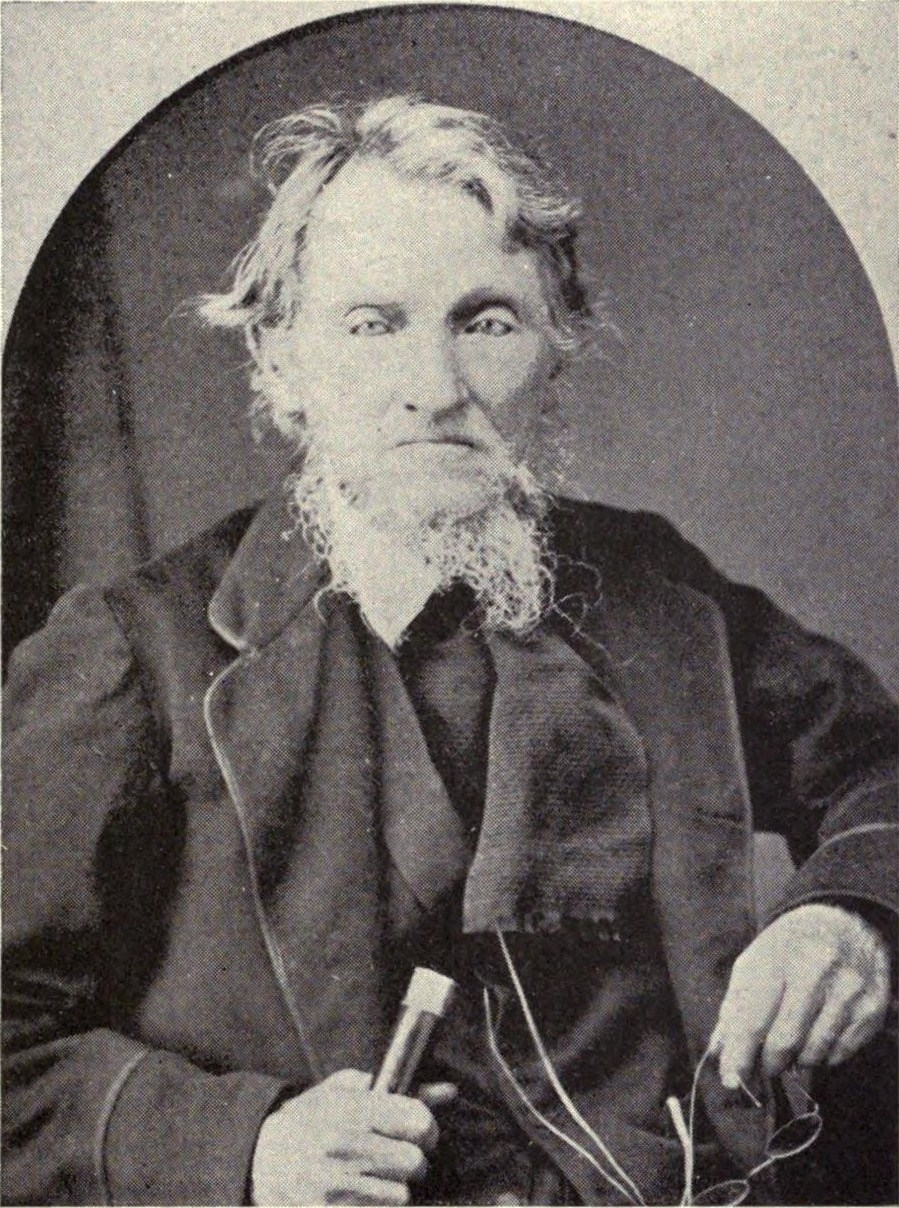 Lorenzo Lyons or "Makua Laiana" (April 17, 1808 – April 27, 1892), missionary to Hawaii. He was responsible for the erection of fourteen churches, such as Imiola Church where he is buried.